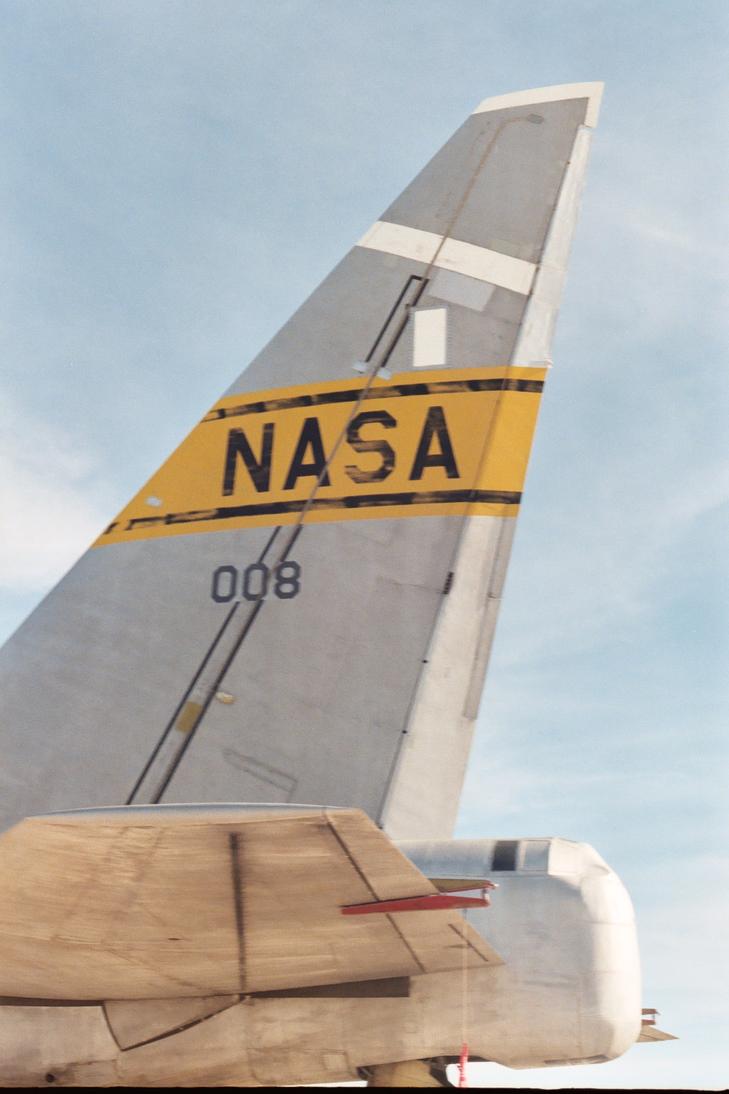 Personal photograph taken by LanceBarber at Edwards AFB Summer Airshow, 2003. No copyrights. Free to the public, release to public domain, and fair use.